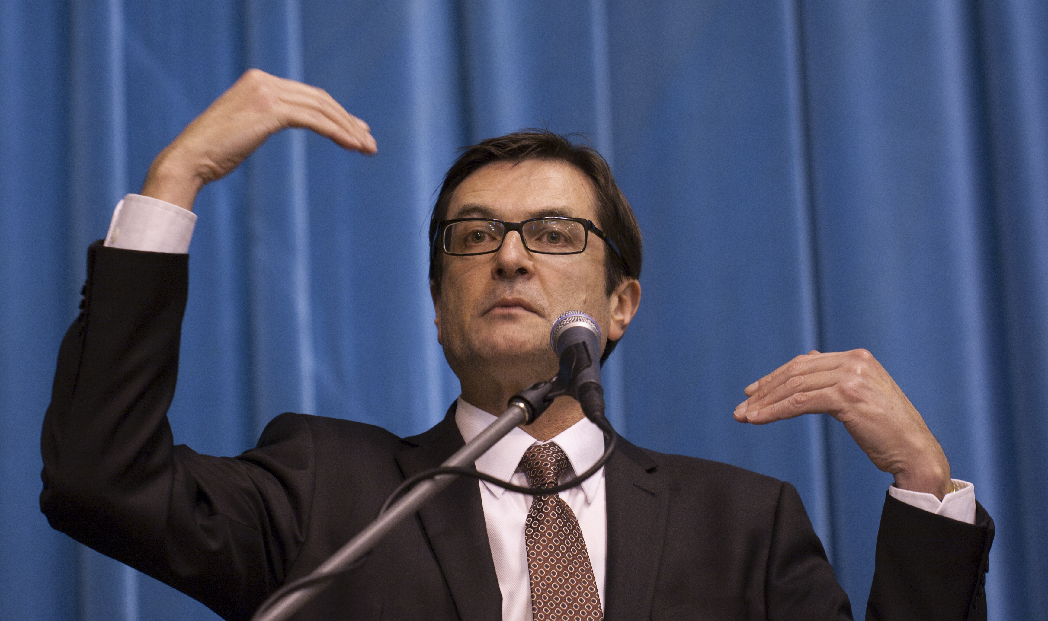 Greg Combet, Member of Parliament of Australia, explaining the effects of the proposed carbon dioxide pollution tax, at the Petersham Town Hall.